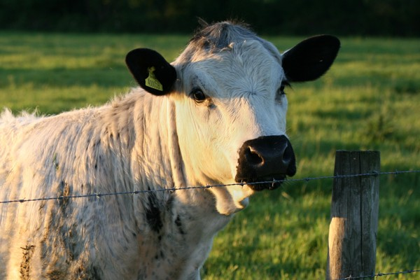 Vaynol cattle typical look